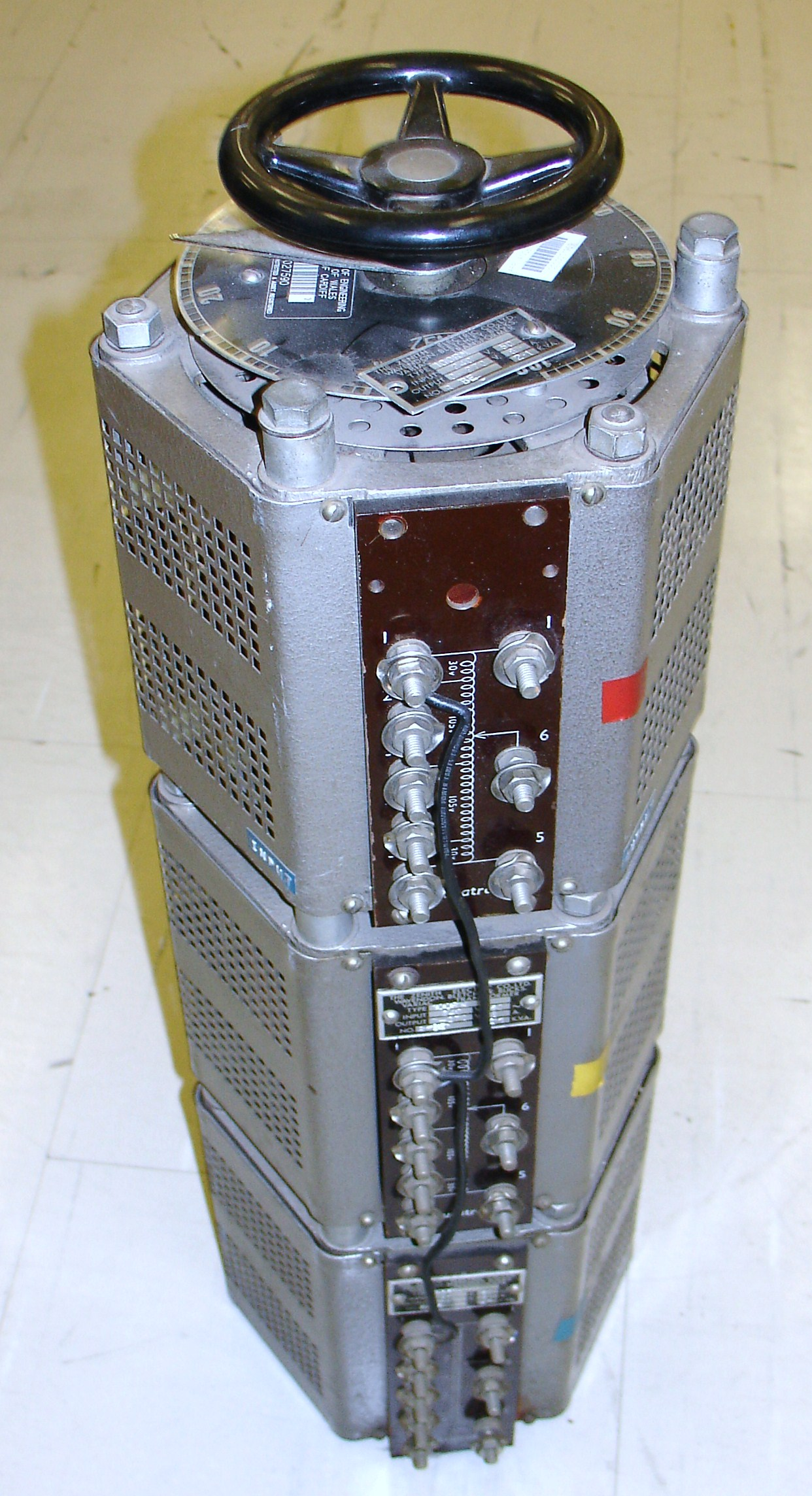 Three-phase autotransformer, input 240 V, output 0-270 V. The photo shows that the three inputs are connected in wye (Y) configuration (with the black wire).